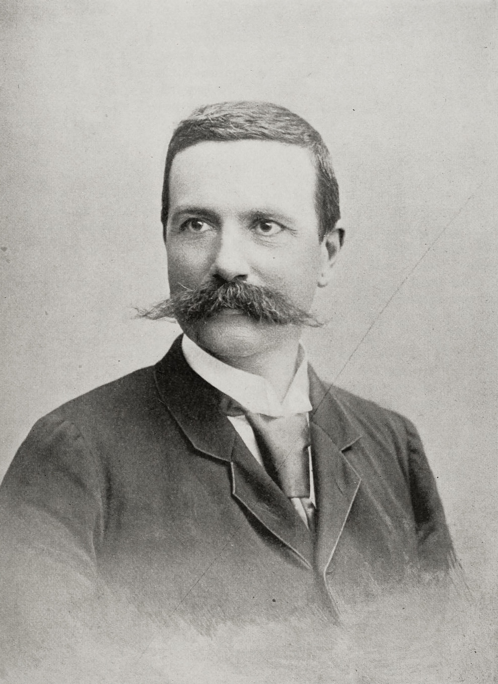 Théodore Turrettini, Swiss Engineer born in Italy. Orginal caption: Col. Theodore Turrettini was one of the members of the International Niagara Falls Commission. He is now president of the minicipality of Geneva, Switzerland, and director of its public works.